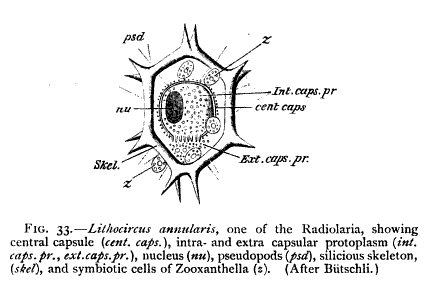 Lithocircus annularis, one of the Radiolaria, showing associated symbiotic cells of Zooxanthella.